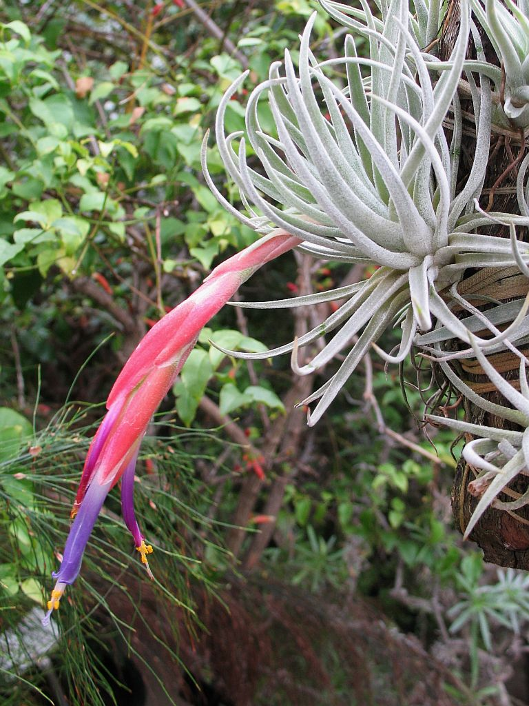 Tillandsia andrieuxii in cultivation at the Botanical Garden of Heidelberg, Germany.